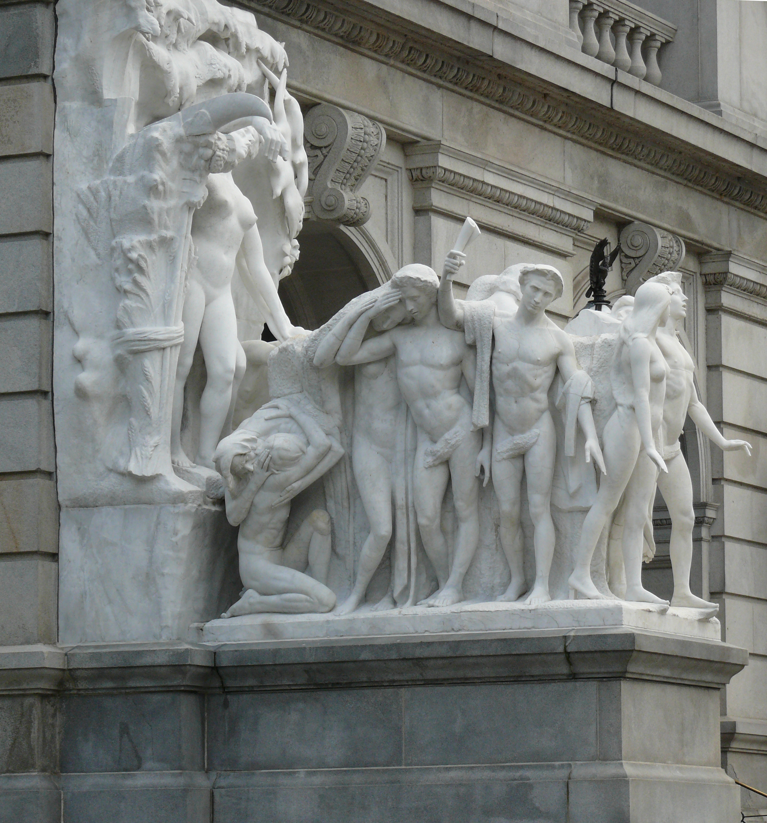 The Pennsylvania State Capitol was designed in 1902, in a Beaux-Arts style with Renaissance themes throughout. It is located in downtown Harrisburg. The entrance is flanked by two sculptures, entitled Love and Labor: The Unbroken Law and The Burden of Life: The Broken Law. Both were sculpted out of Carrara marble by George Grey Barnard in 1909.